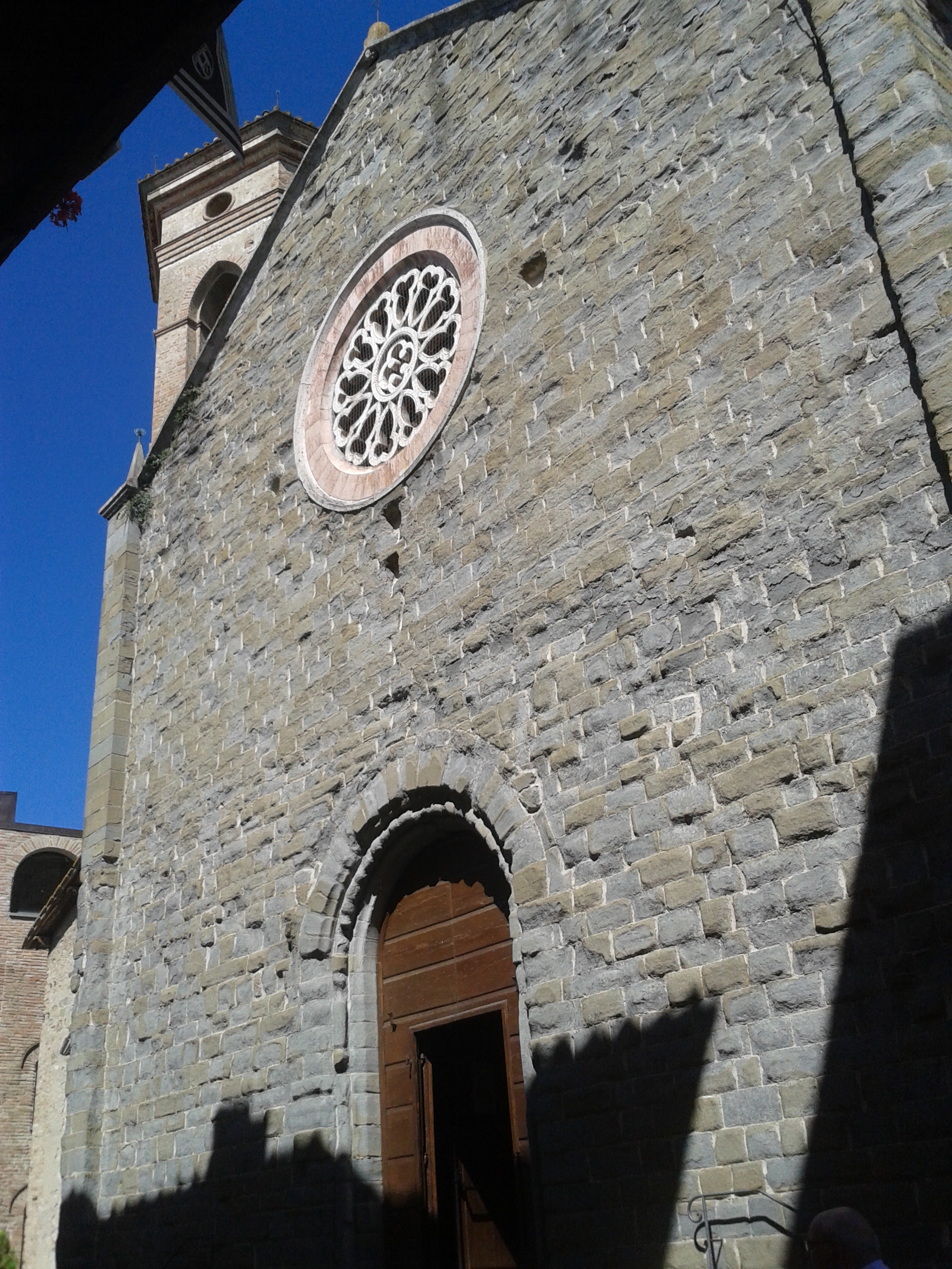 Facciata della chiesa